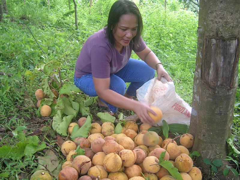 Santol Sandoricum koetjape. Gathering plucked ripe fruits at the foot of the tree (Zamboanga del Sur, Mindanao, Philippines). Photo by Rizza Ayavoo.